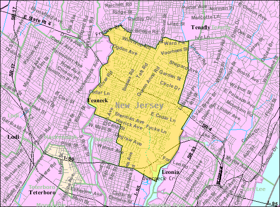 U.S. Census Bureau map of Teaneck